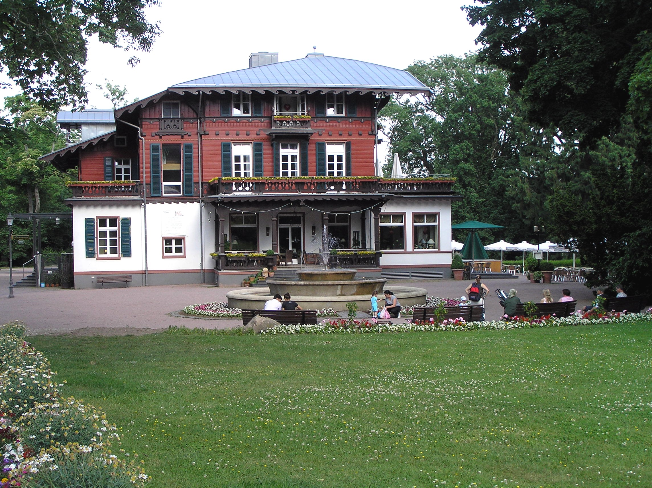 Villa Borgnis (Königstein im Taunus, Germany)